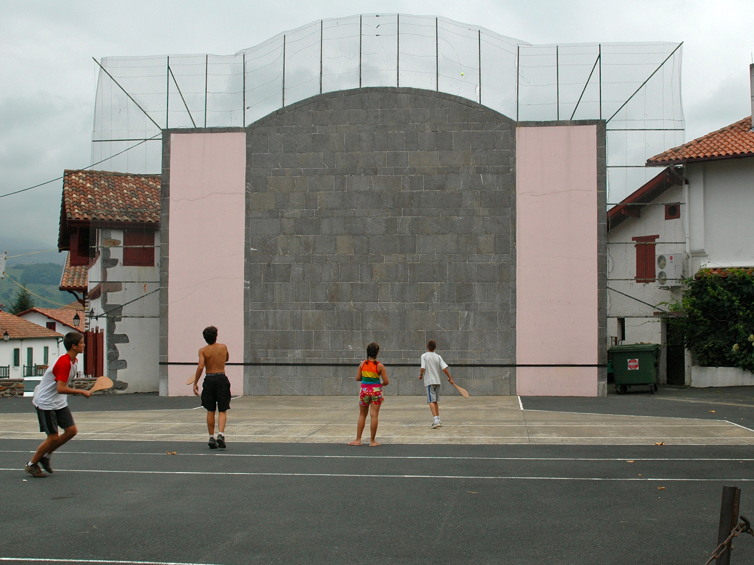 Itxassou / Itsasu, pilota match. Photo taken July 27th, 2006 by Harrieta171.